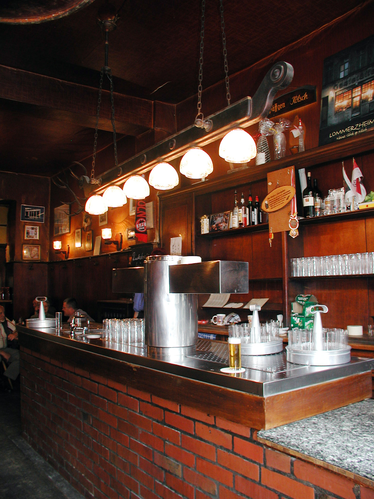 Cologne, public house "Lommerzheim"